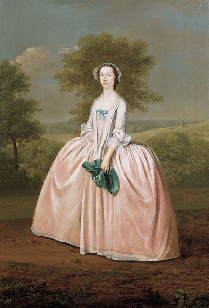 Peter Ducane (1713-1804) was a merchant, Governor and director of both the Bank of England and the East India Company. His wife, was a wealthy heiress, the only duaghter of Henry Norris, a Muscovy merchant. The family are depicted in the grounds of their house at Braxted in Essex. The house itself appears in the middle distance of the central panel depicting the three Ducane children.